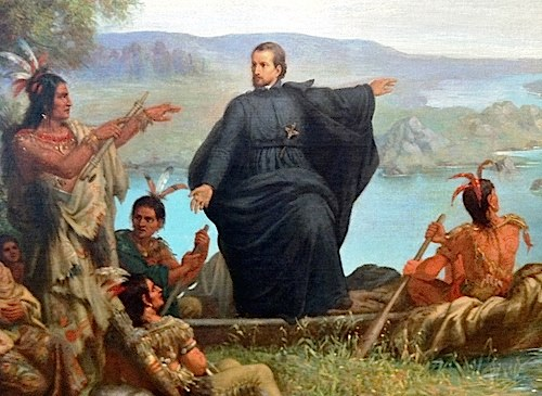 Painting of Father Jacques Marquette preaching to Native Americans. Legendary 1675 event occurring in present day Upper Michigan. Credits Downloaded from here: No copyright information, but the same image appears on this 1-cent stamp from 1898: 08:13, 5 December 2003 Maveric149 302x306 (18,289 bytes) (crop) 22:13, 19 July 2003 EvanProdromou 424x313 (23,459 bytes) (Father Jacques Marquette Preaching)